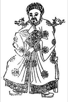 Emperor Huizong of Yuan